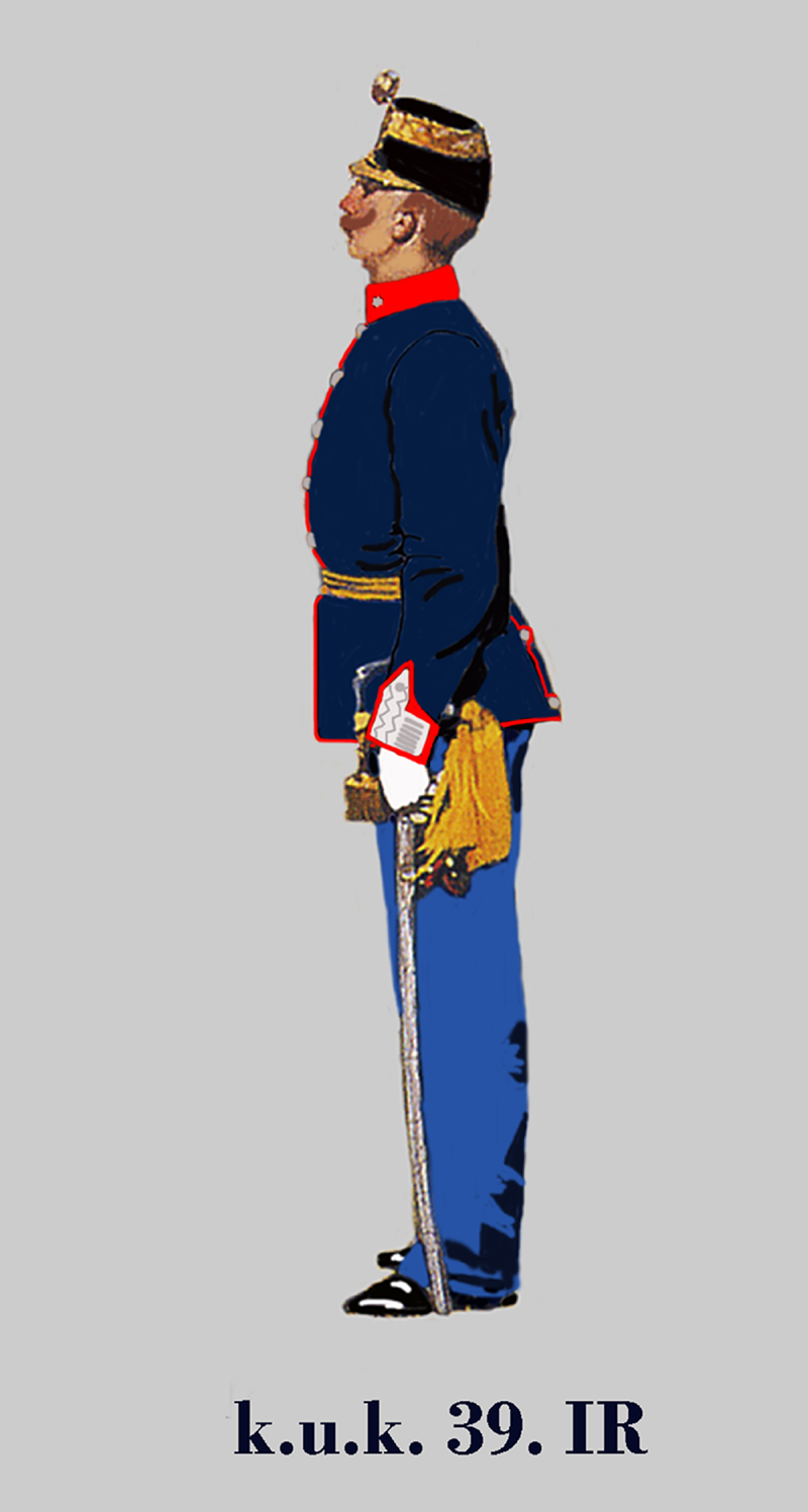 Lieutenant of the Austria-Hungarian (k.u.k.). 39th hungarian Infantry Regiment in Parade dress 1914